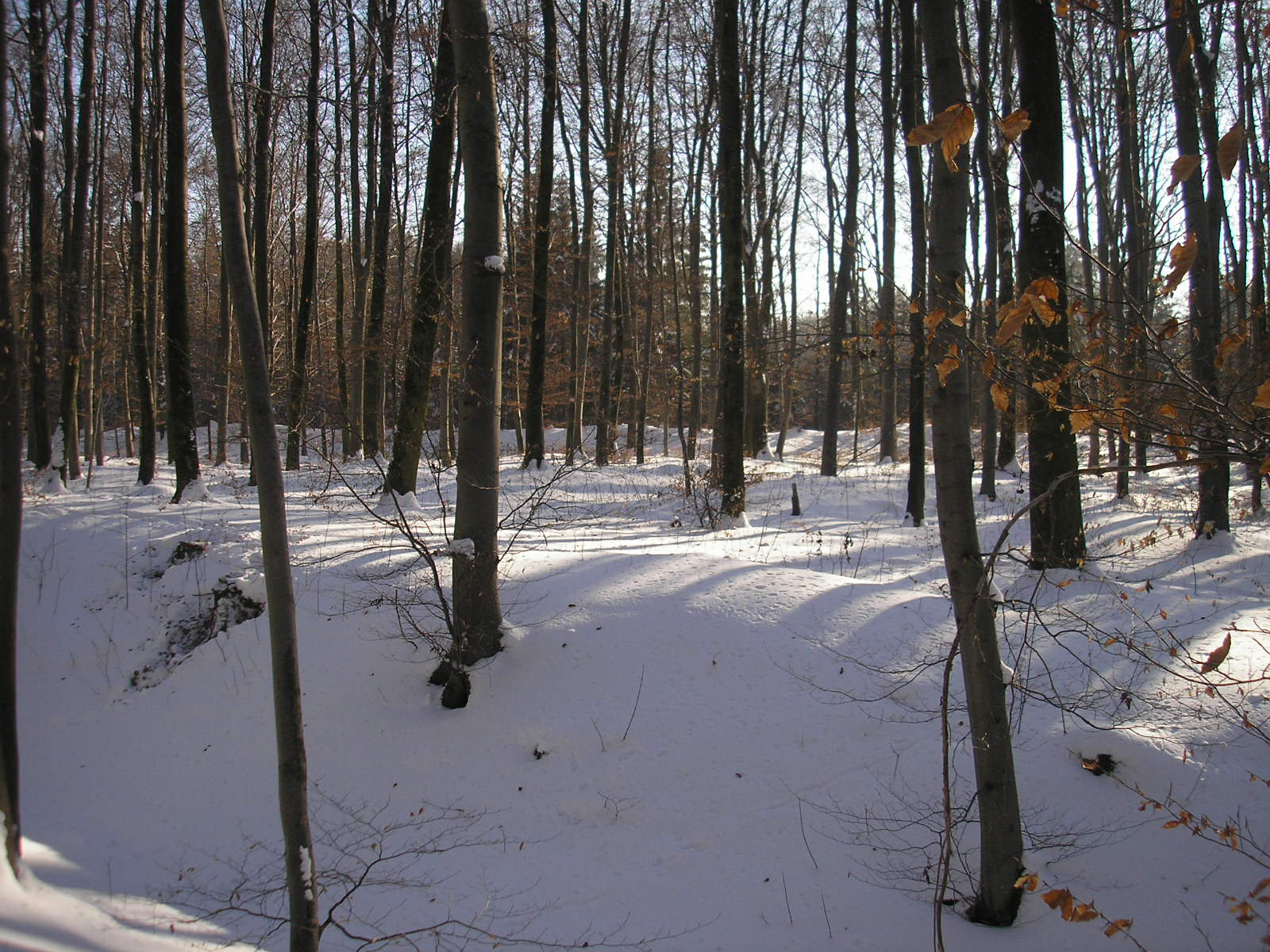 Early Middle Ages hill fort "Birg" near Hohenschäftlarn (Baierbrunn, Landkreis München, Upper Bavaria).The southern earthworks, looking south-east